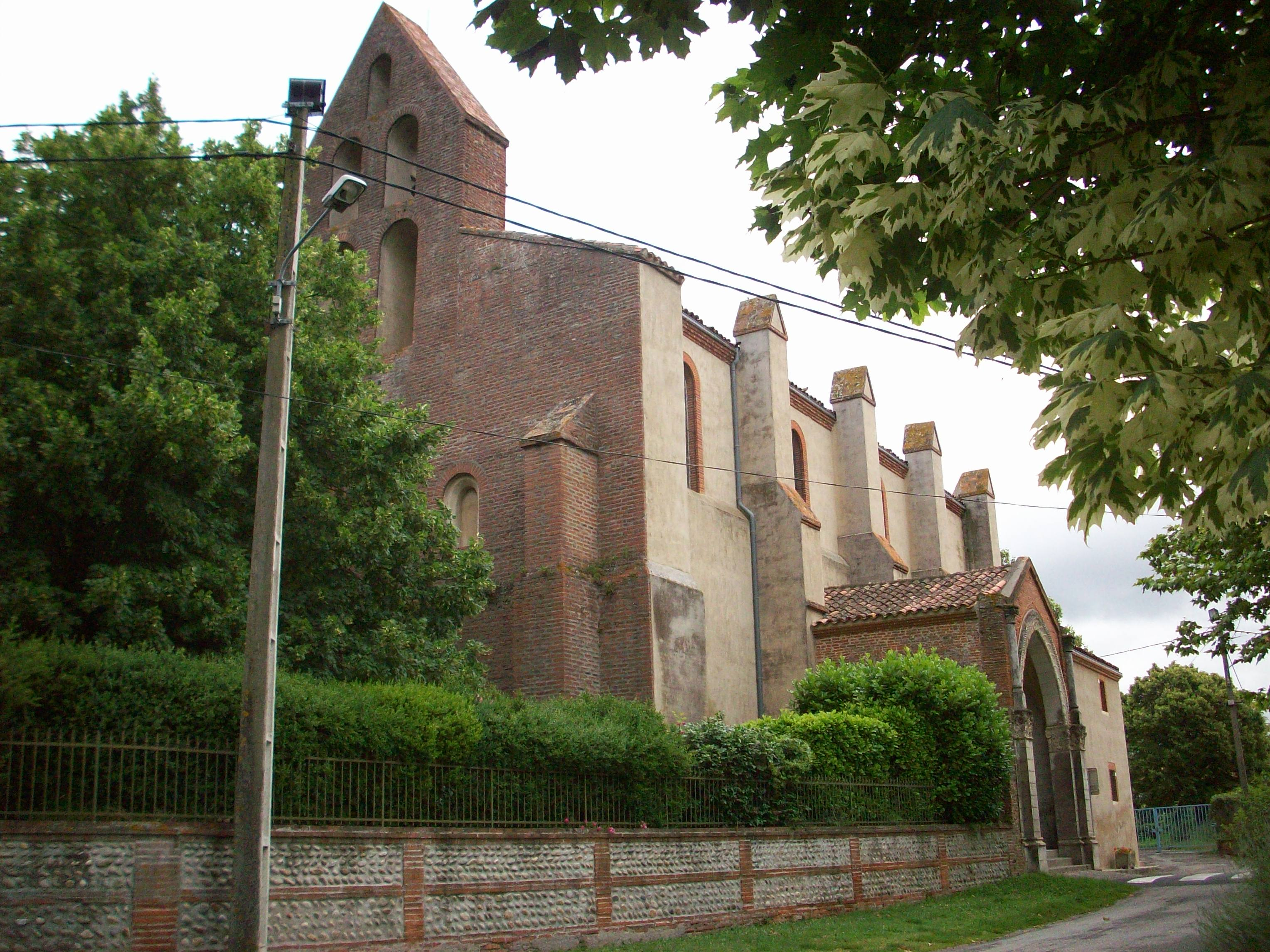 Caujac church (Haute-Garonne, France).